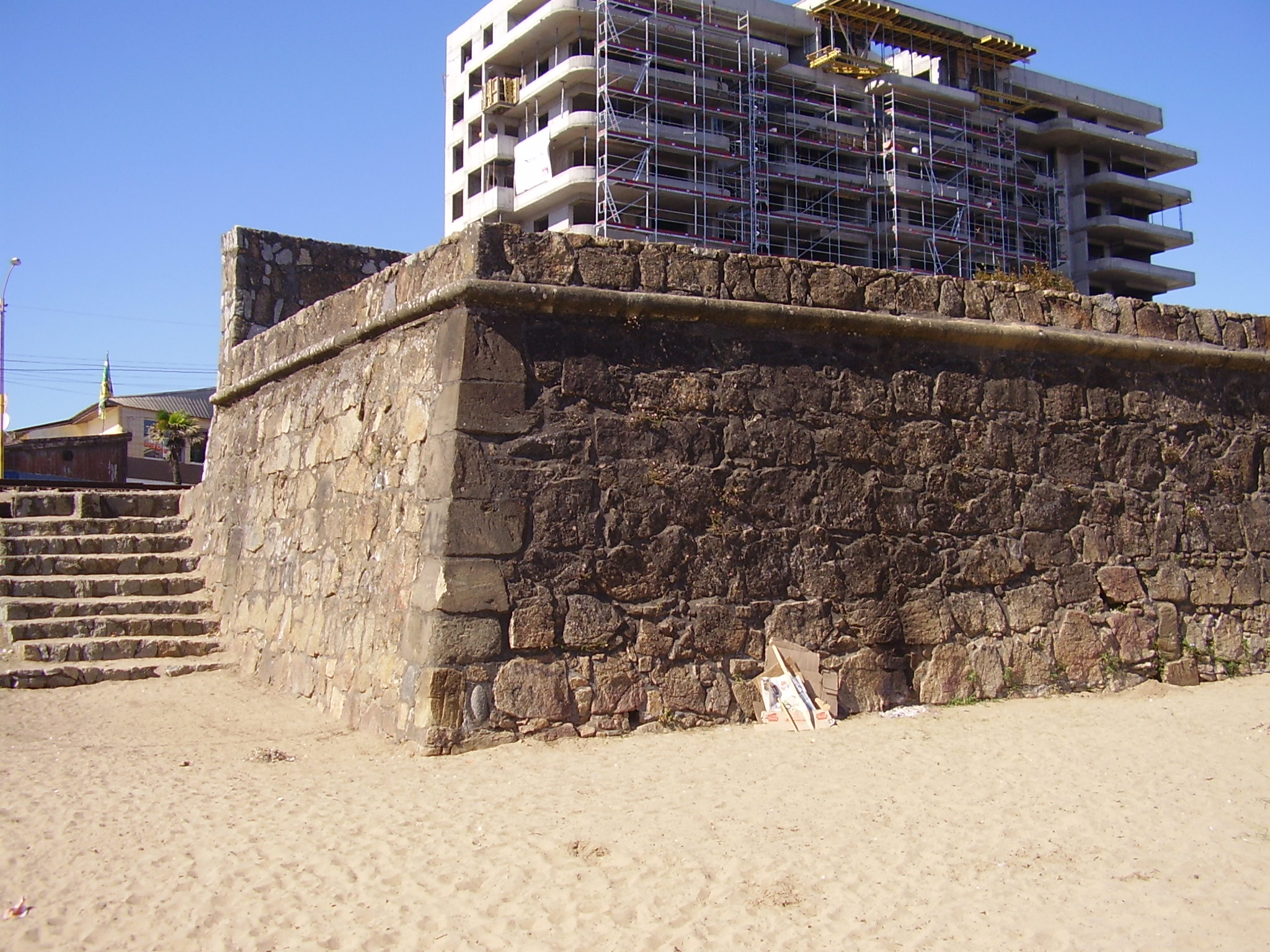 This is a photo of a national monument in Chile: 653